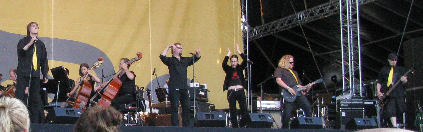 Nuoret Vihaiset Miehet in Pori 2008.